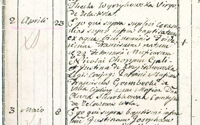 Latin baptismal certificate dated 23 April 1810 for Frédéric Chopin, here spelled as Fridericus Franciscus Choppen. About two months after his birth, this baptismal on Eastern sunday is considered a “complementary ceremony”, following an earlier one